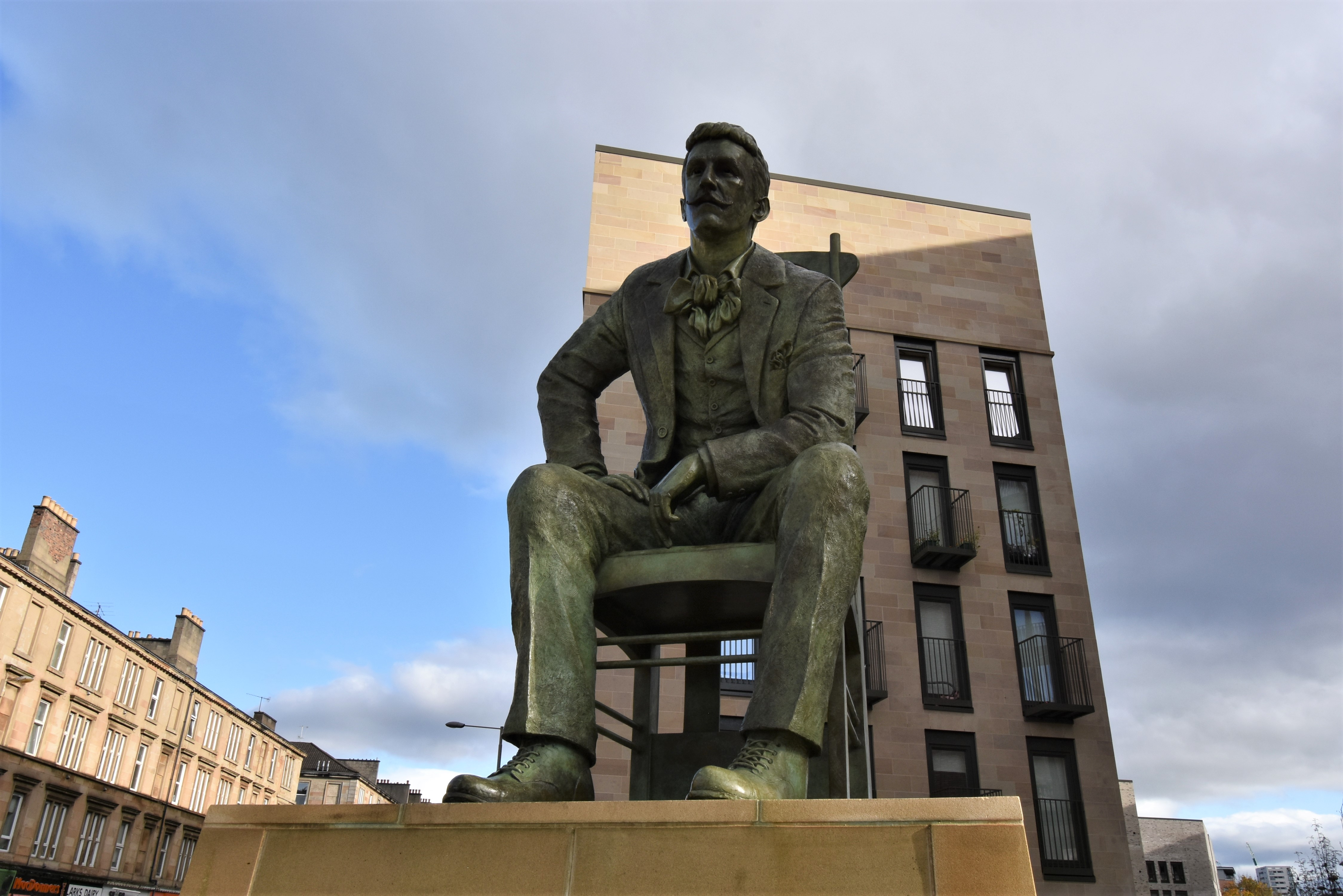 Glasgow. Elliot Street. Statue of Charles Rennie Mackintosh unveiled on the 90th anniversary of his death. Sculptor: Andy Scott. Artwork commissioned by Sanctuary Group, revealed by First Minister Nicola Sturgeon on 10 December 2018.